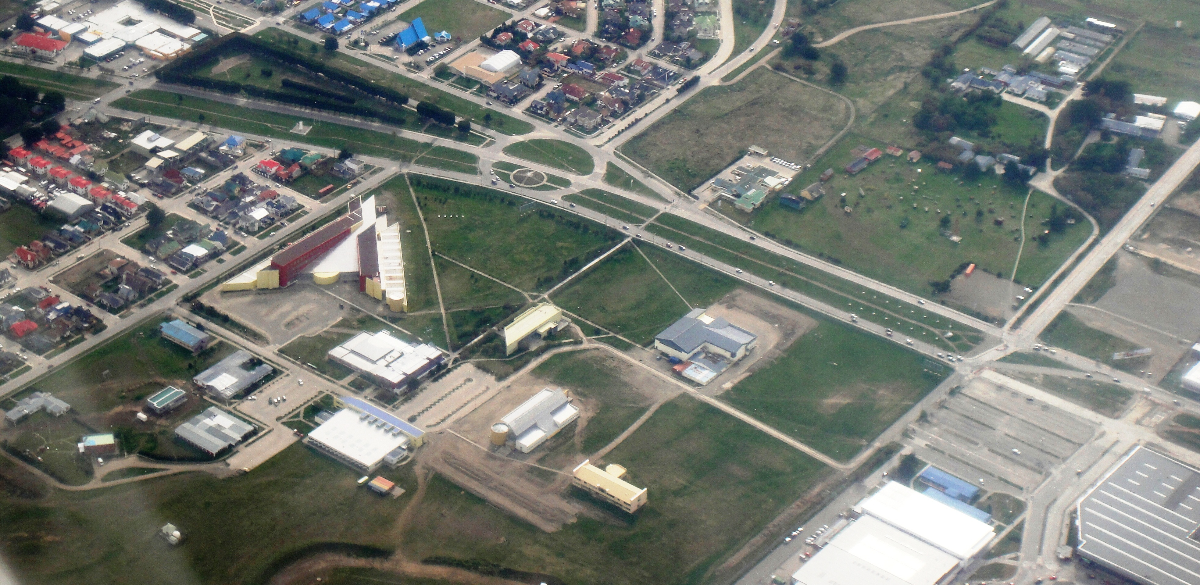 Aerial photo of Campus Central of University of Magallanes and Instituto de la Patagonia.